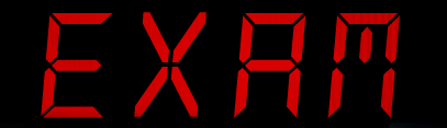 Text logo of the movie Exam from 2009